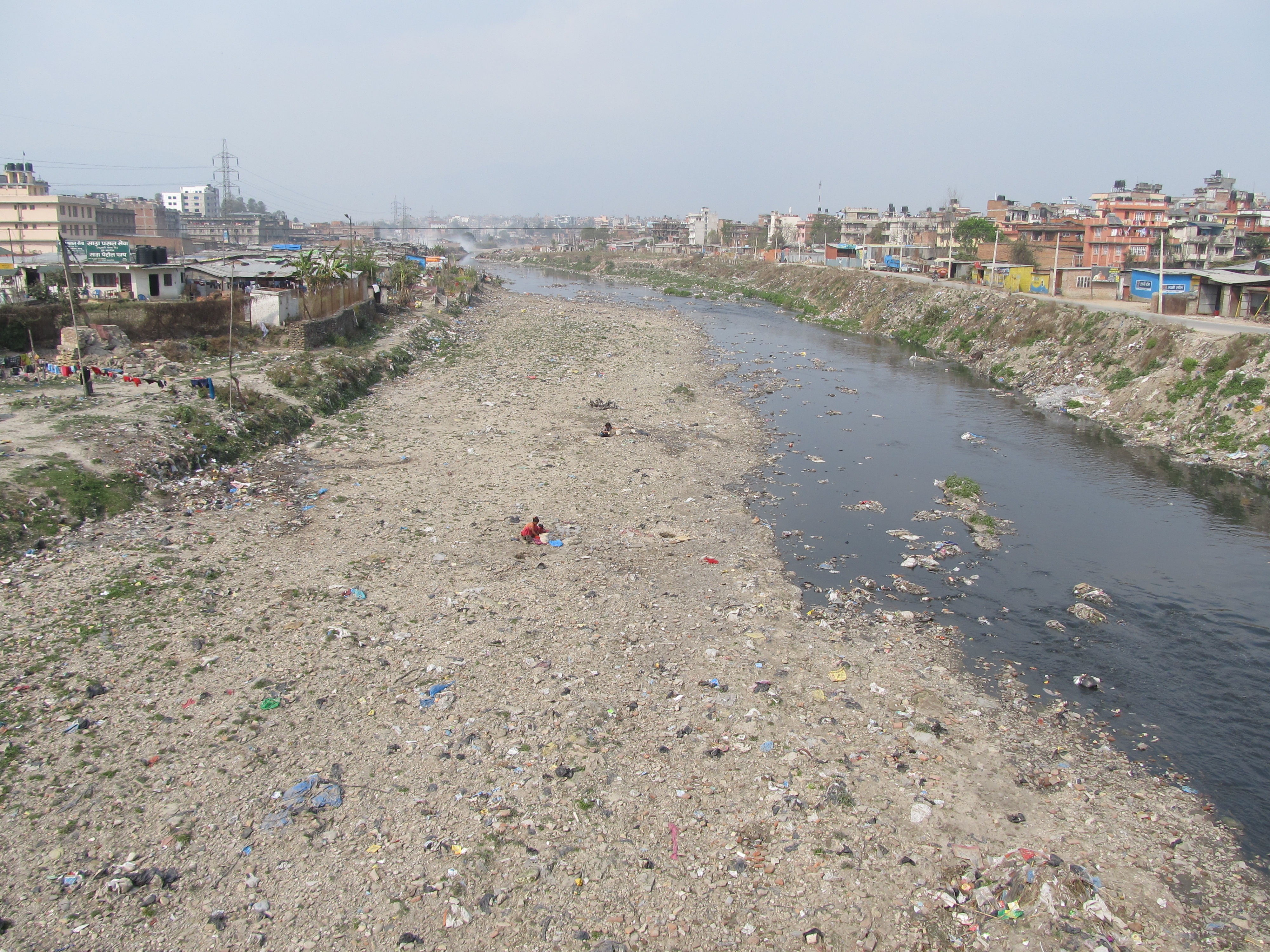 Looking north from Ringraod bridge between Lalitpur and Kathmandu at the garbage-littered Bagmati river bed